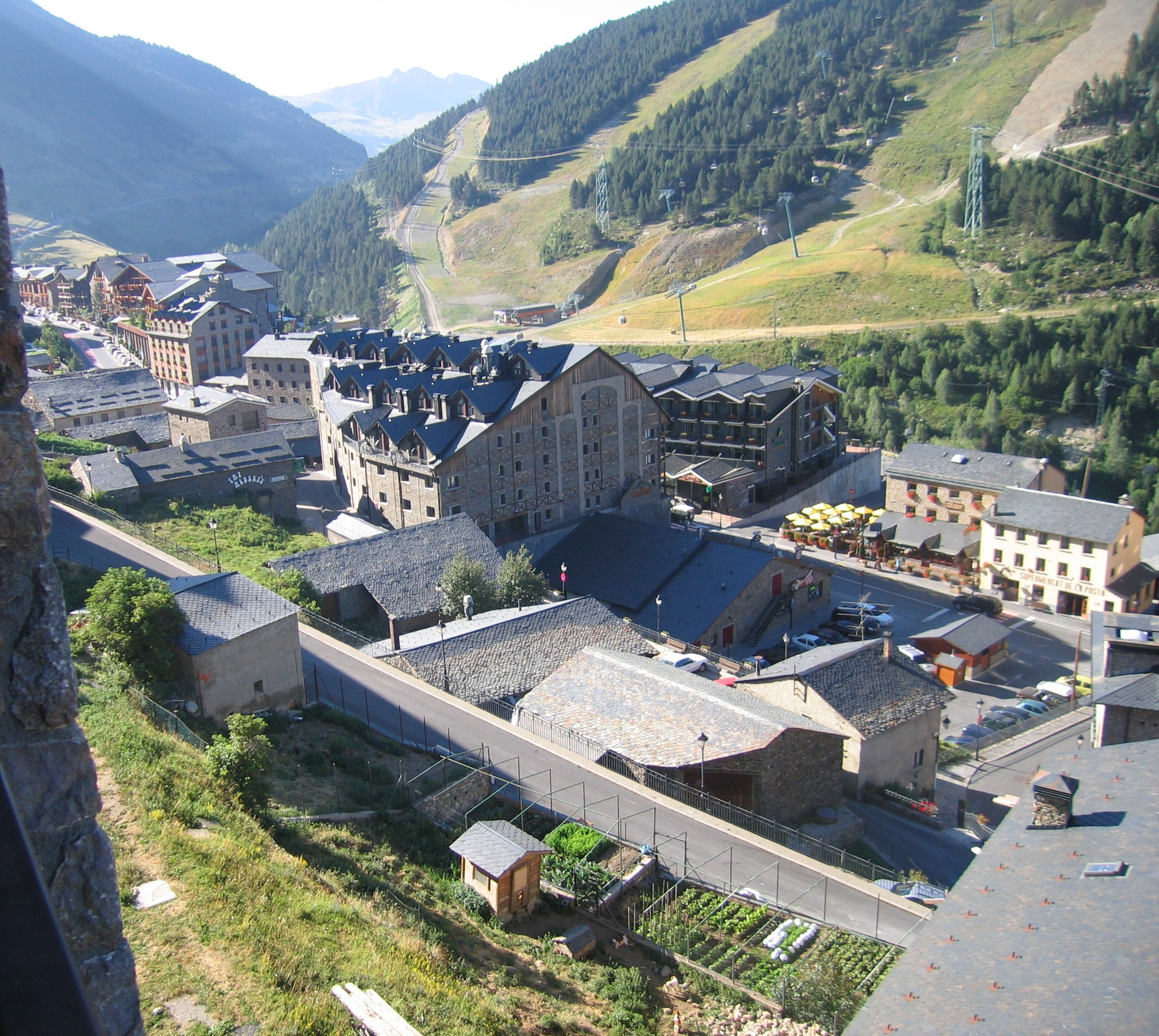 Soldeu